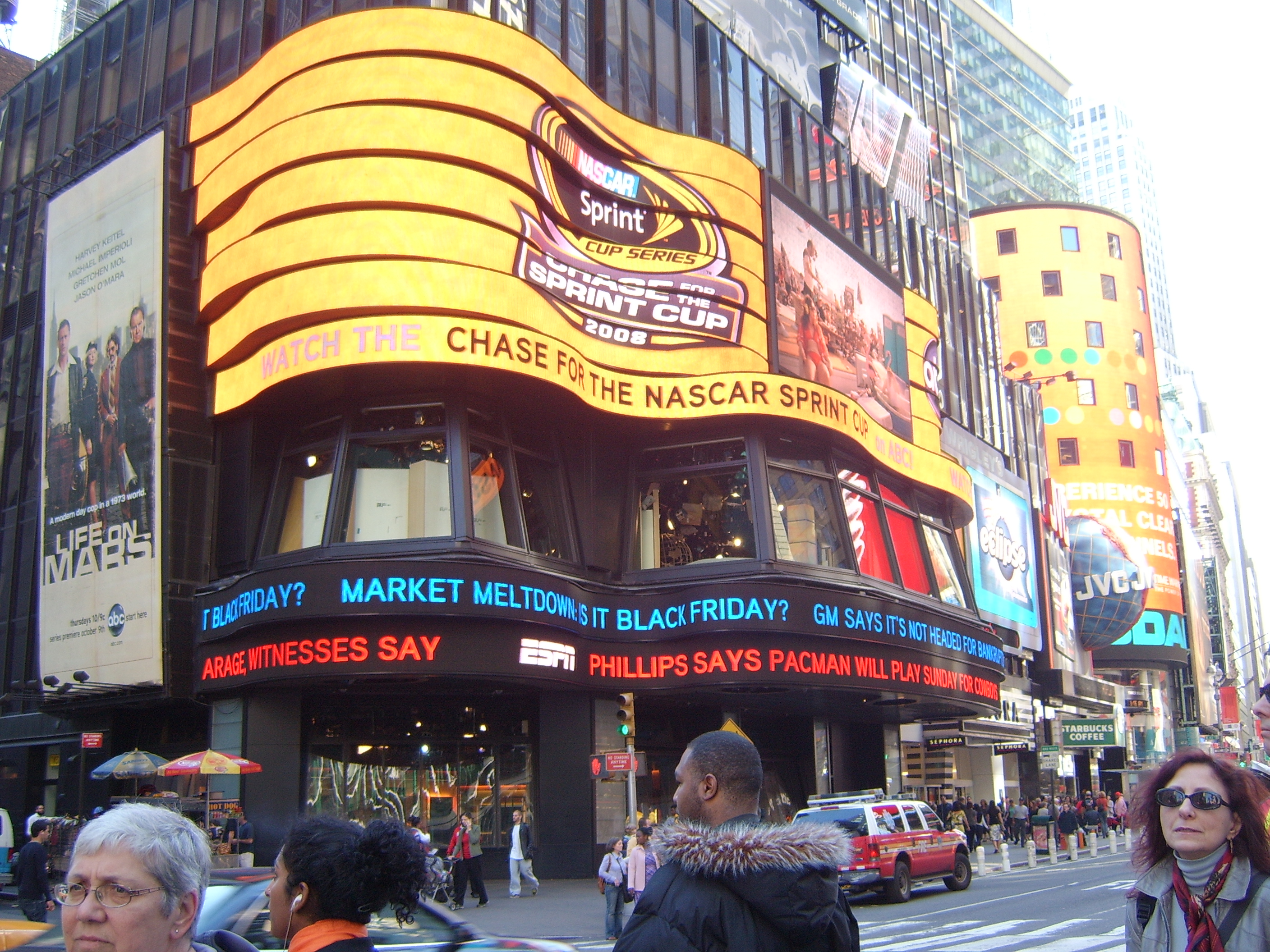 Looking southeast in Manhattan, New York City